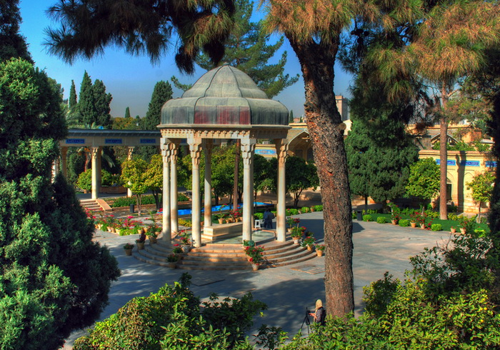 The tomb of Hafez (original: Hafezieh by Amir Hussain Zolfaghary)